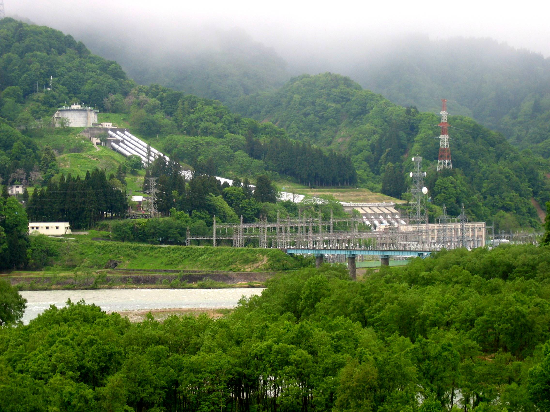 Shinanogawa Electric Power Station (信濃川発電所) is TEPCO's hydroelectric power station. It is getting a lot of water from Nishiotaki dam's intake on Shinanogawa river.